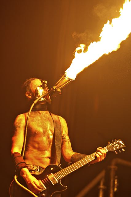 Rammstein_Lifad_Tour_Berlin